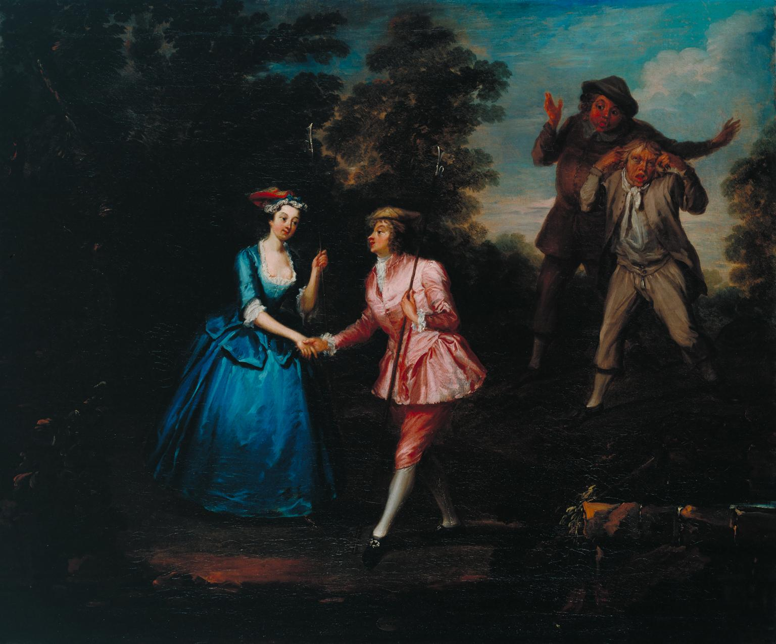 Damon and Phillida Reconciled: A Scene from Colley Cibber's 'Damon and Phillida', oil on canvas, Tate Gallery. Cibber's daughter Charlotte plays the lead male character.